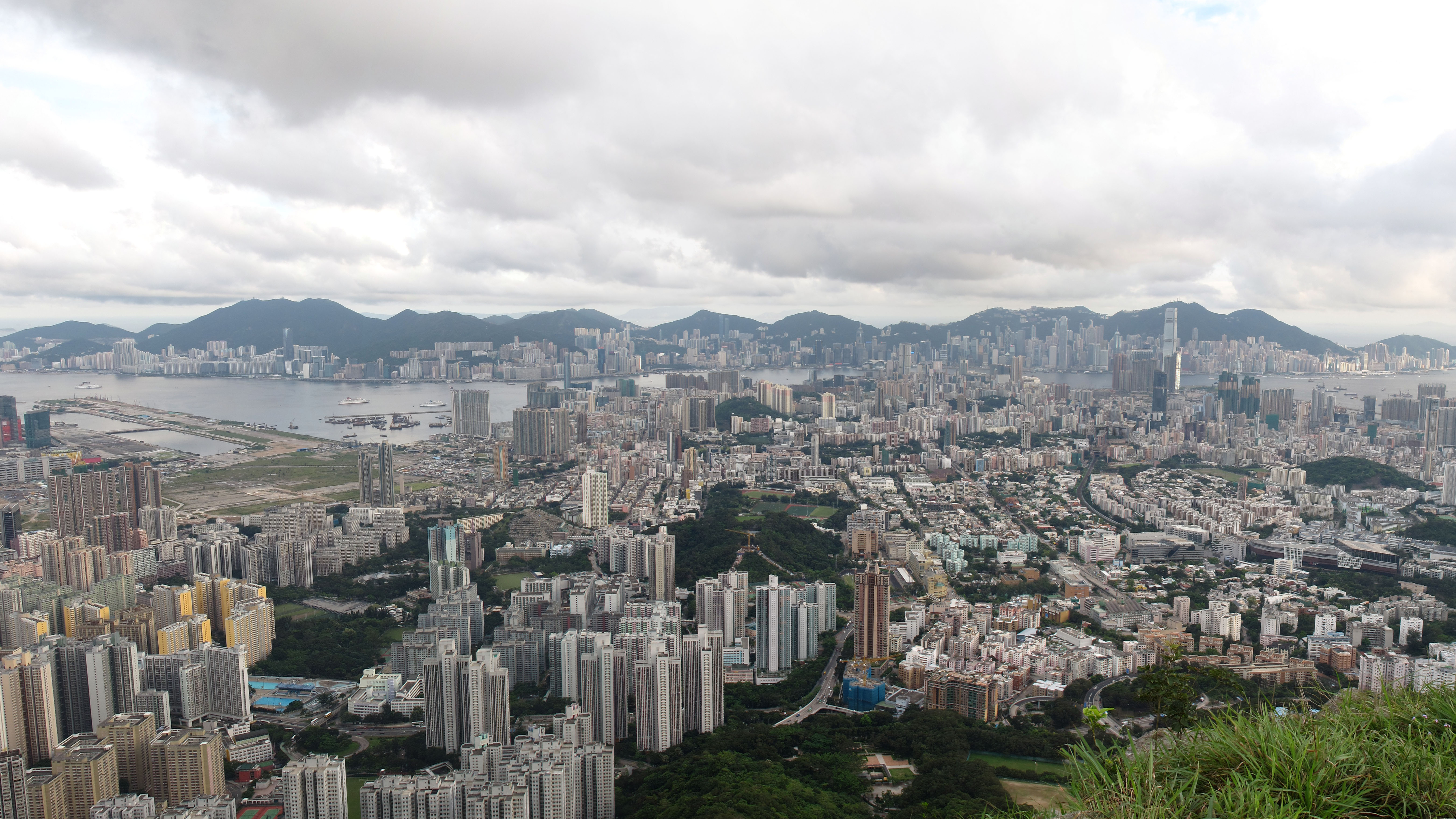 Full view of Kowloon and Hong Kong